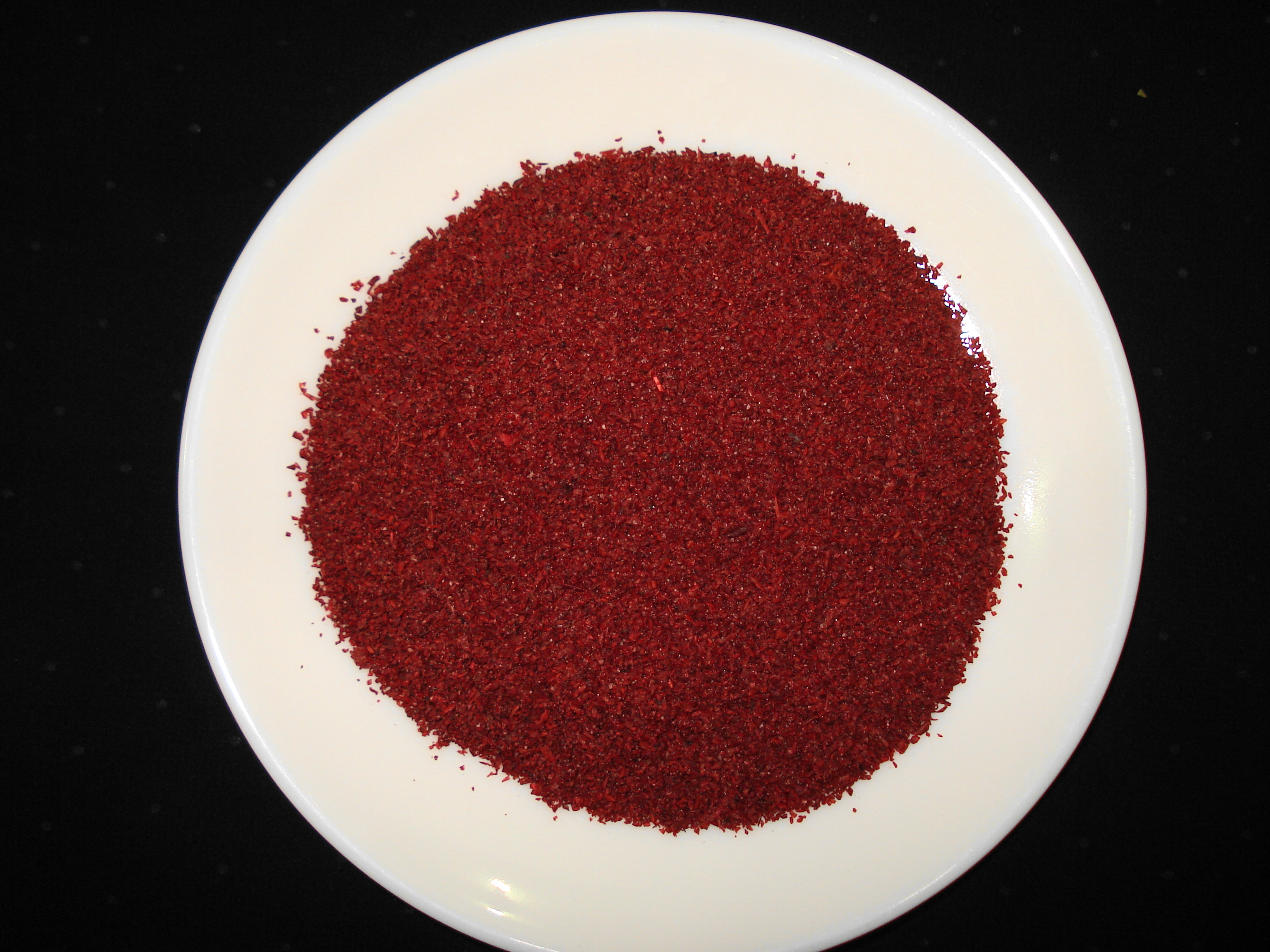 Sumac